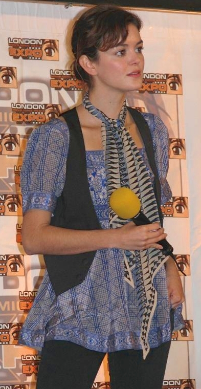 Cropped, normalized version of image of Nora Zehetner at London Expo 2007 on 20./21. October 2007